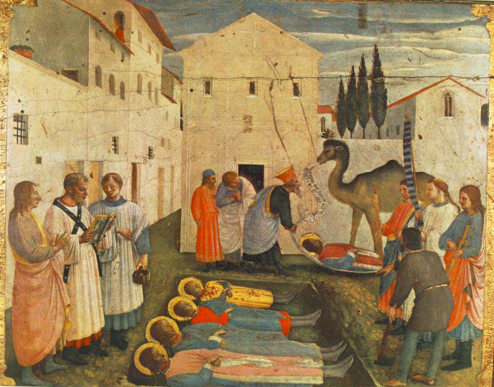 Sepulchring of Saint Cosmas and Saint Damian Tempera on wood, 37 x 45 cm Museo di San Marco, Florence